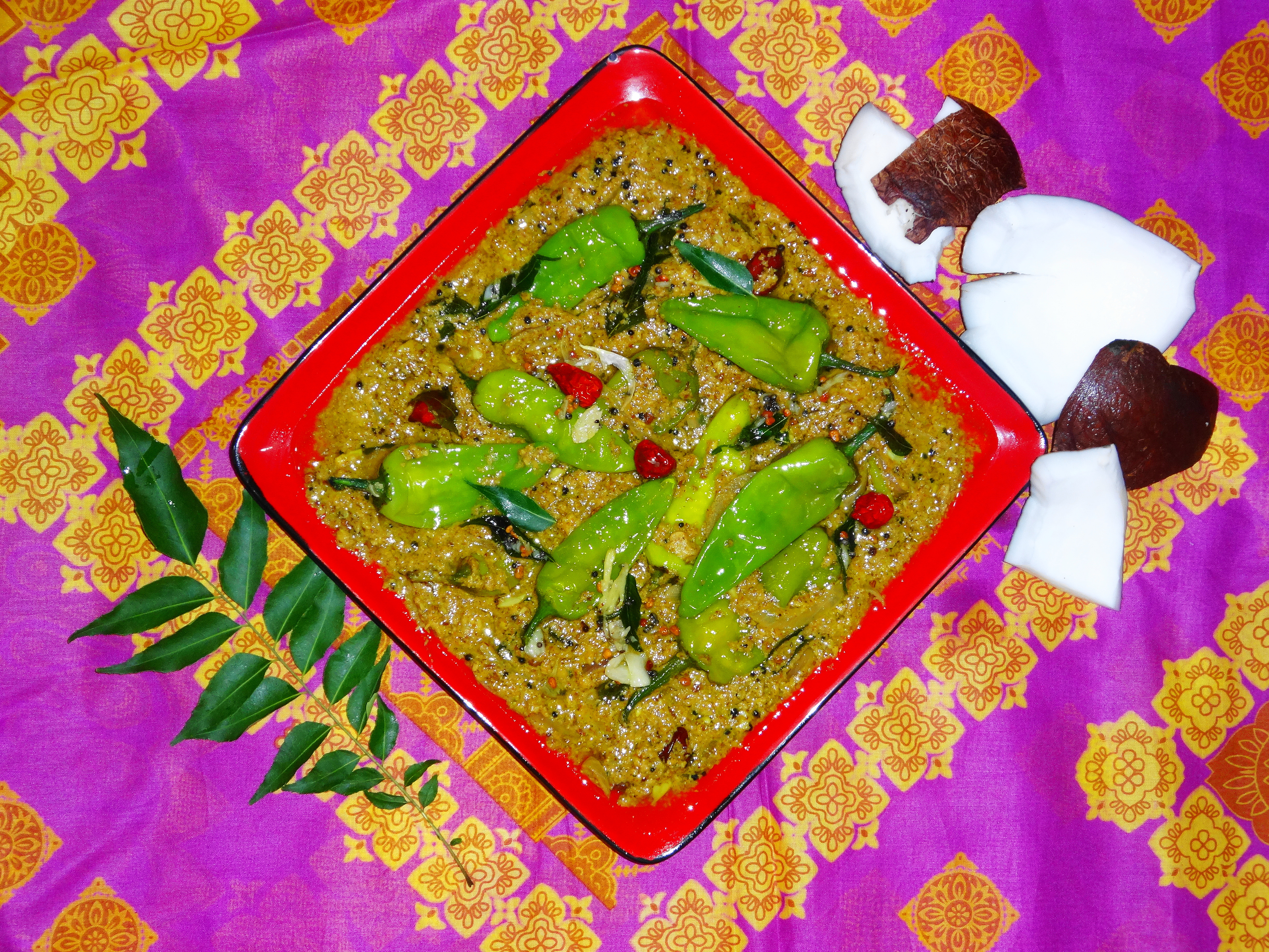 Hyderabadi Hari Mirchon Ka Salan, حیدرآبادی ھری مرچوں کا سالن